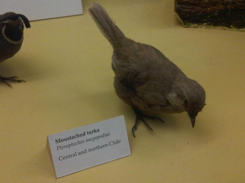 Taxidermied Moustached Turca (Pteroptochos megapodius) at the Natural History Museum in London, England.